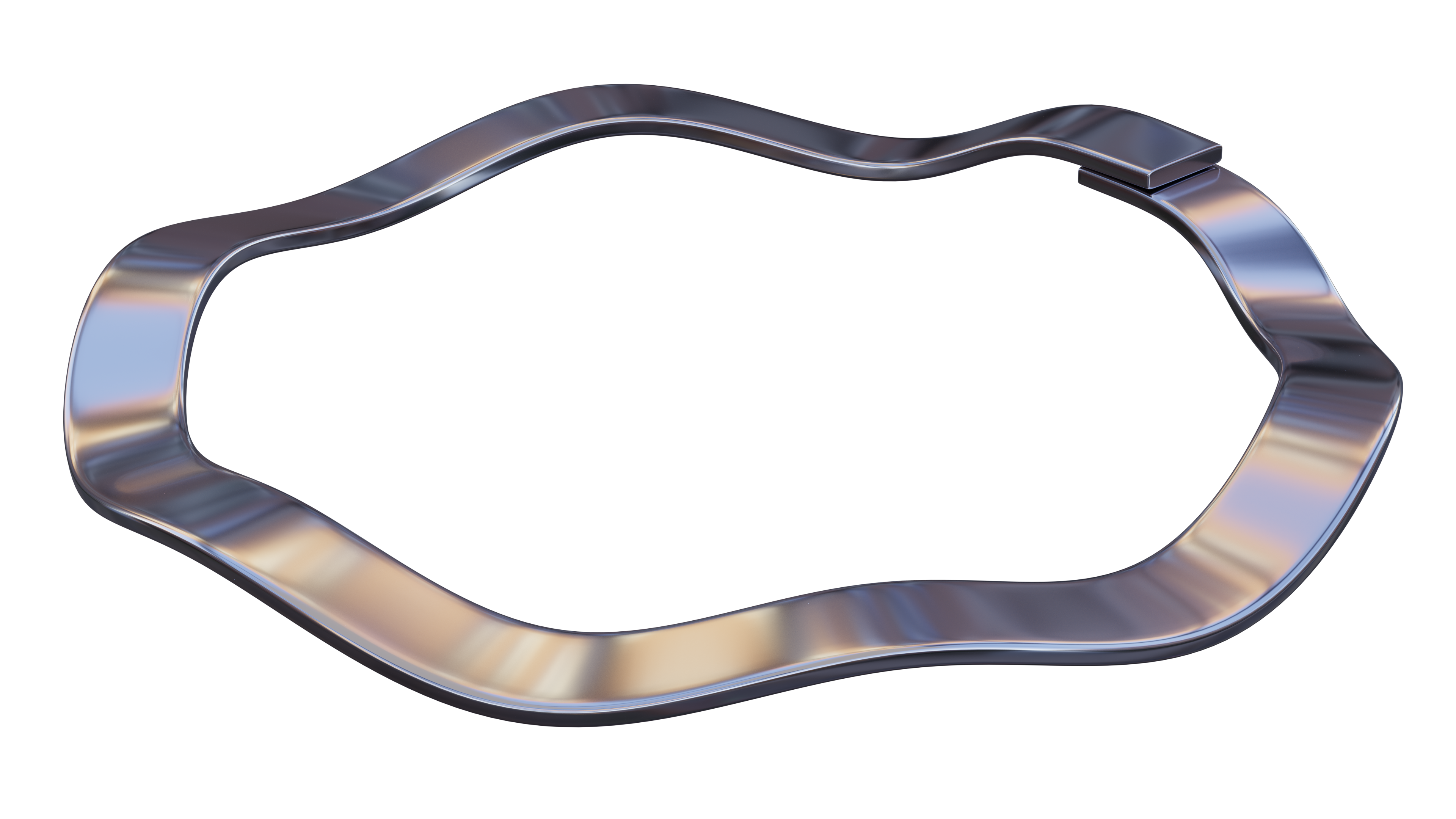 A raytraced 3D model of a single-turn wave spring with overlapping ends.